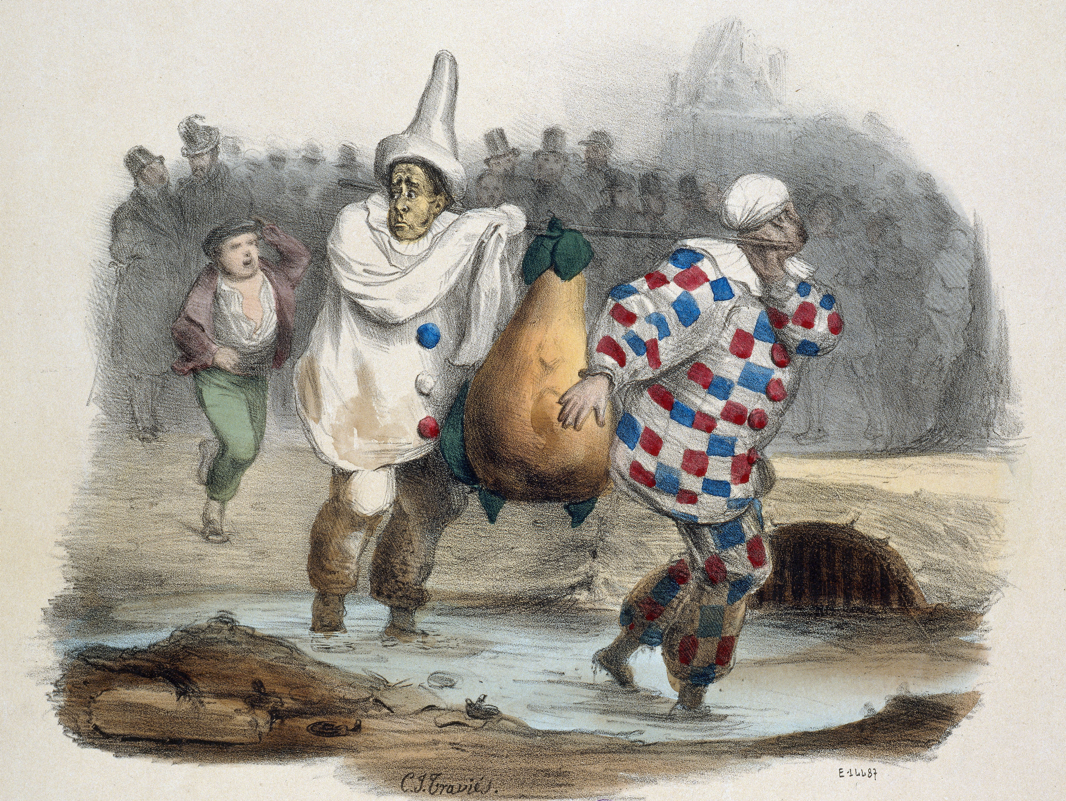 Le juste milieu se crotte by Traviès de Villers published in La Caricature